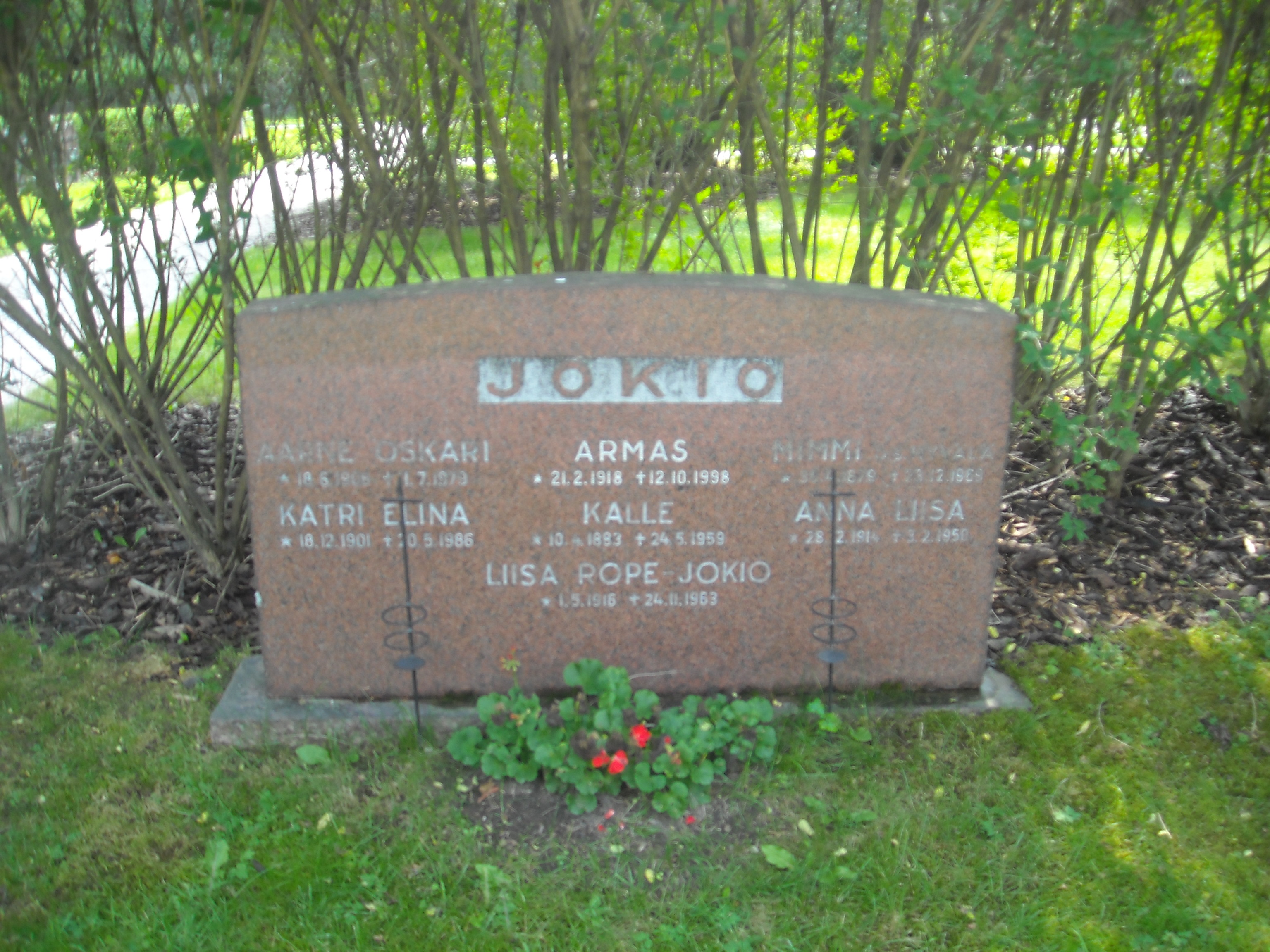 Armas Jokio's grave in Malmi cemetery, Helsinki